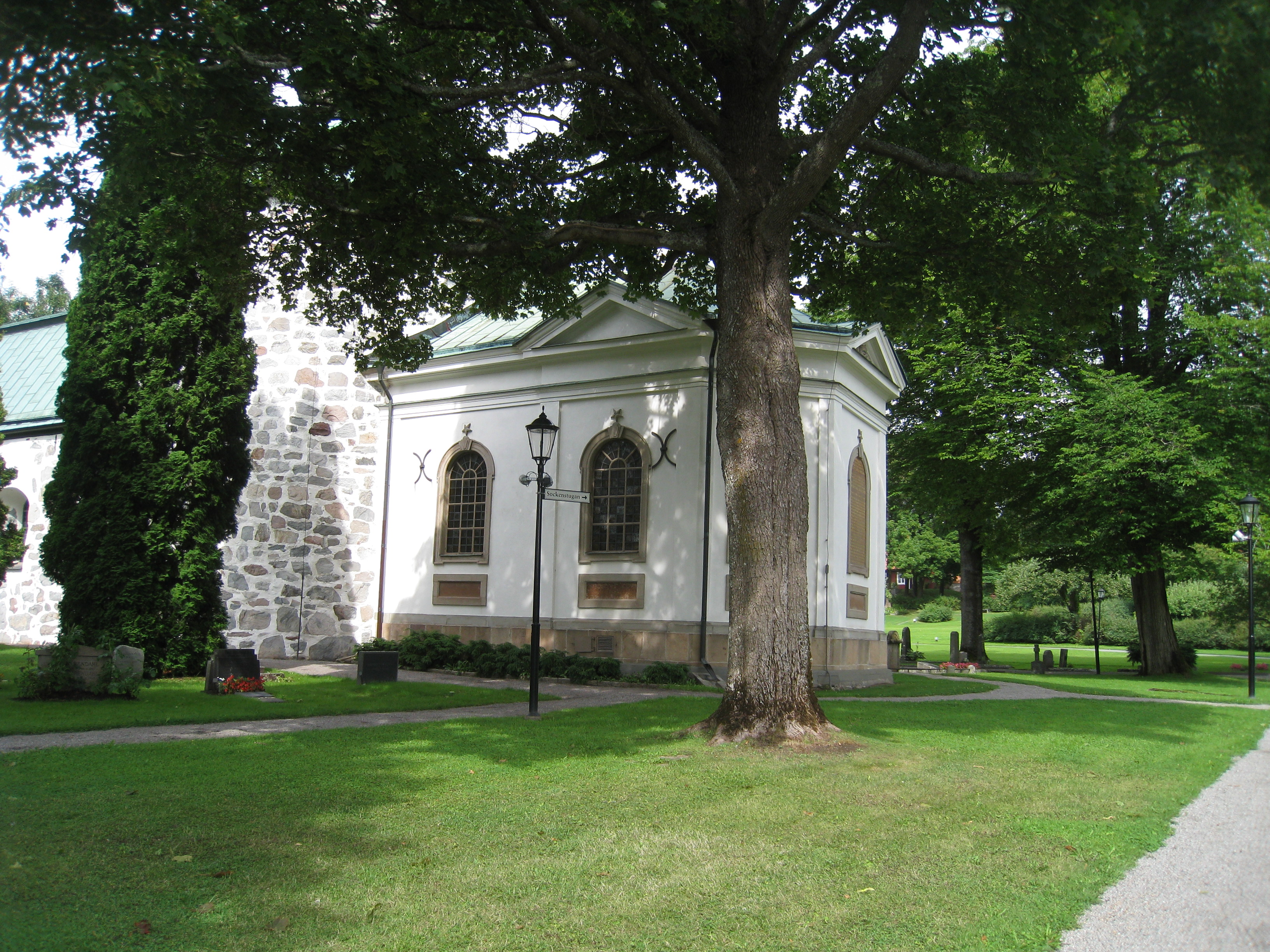 Bromma Church in Bromma Parish, Stockholm Municipality, Uppland. Picture of the burial chapel of baron Gabriel Stierncrona (1669-1723).